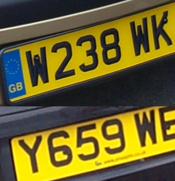 British car number plates, 2004-04-25.